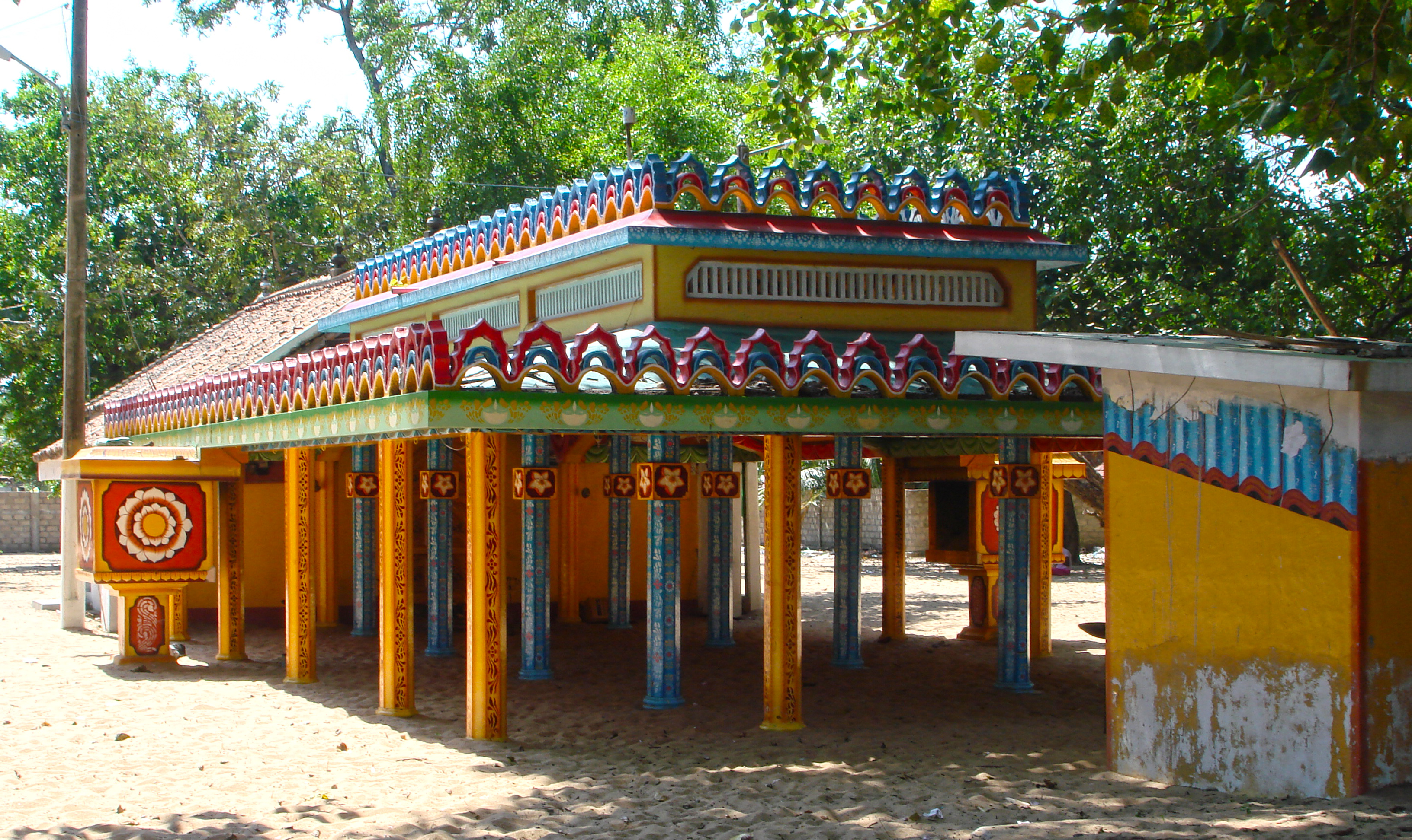 Arayampathy Kannaki Kovil on year 2008